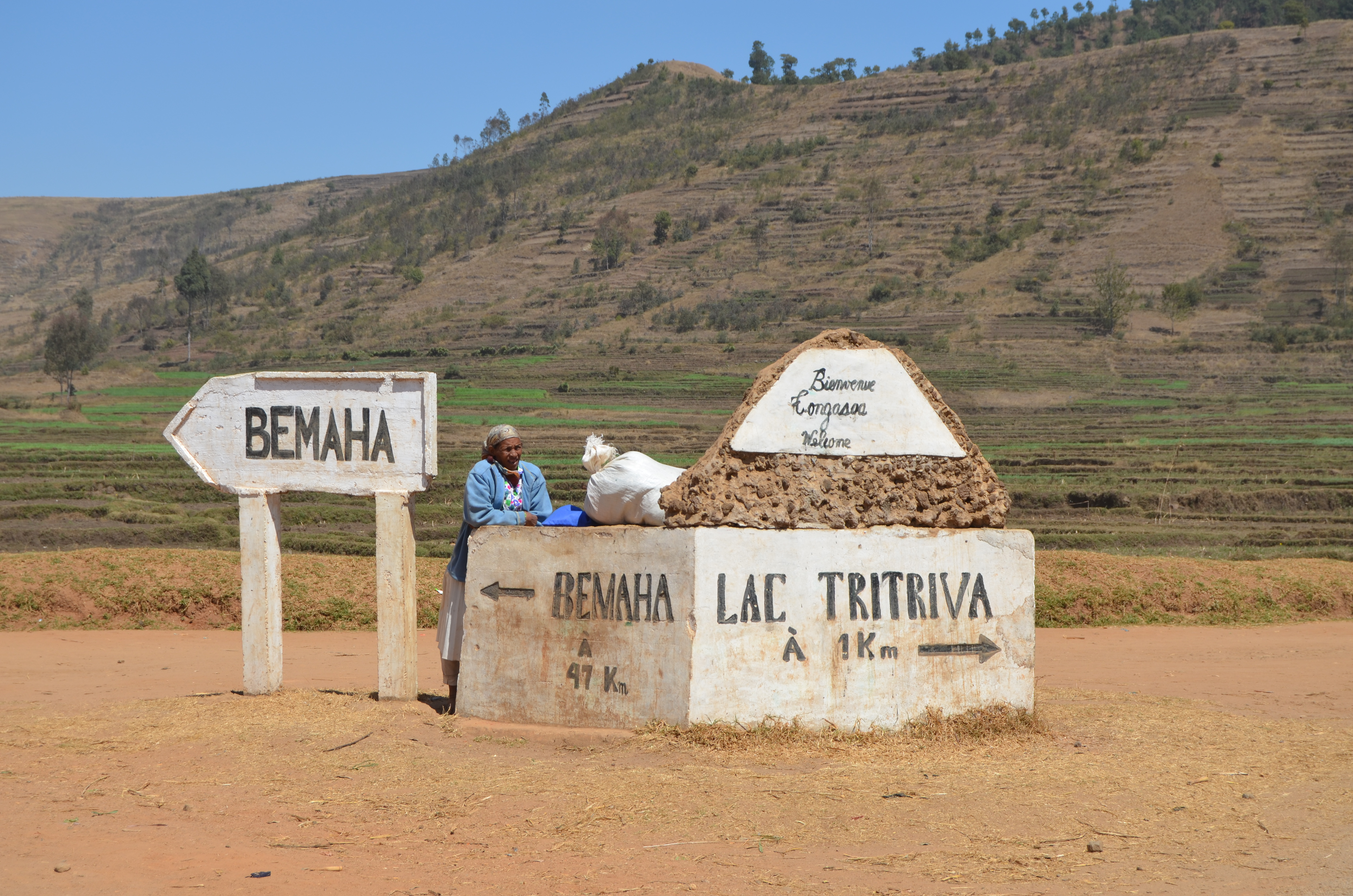 Road sign indicating Bemaha and Tritriva lake.